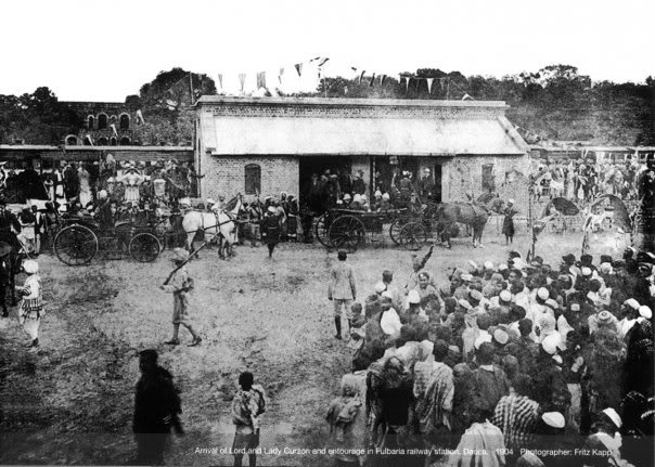 Arrival of Lord and Lady Curzon in Fulbaria Railway Station in 1904. Photograph taken by Fritz Kapp.